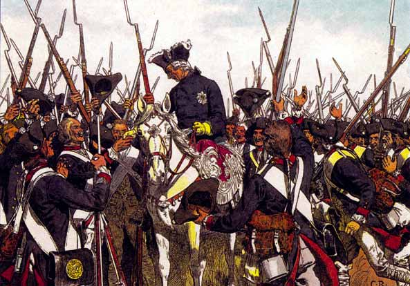 Painting of Carl Röchling (1855-1920) showing King Fredrick II of Prussia and the men of the Regiment Anhalt-Bernburg (Nr.3) after the Battle of Liegnitz (15th August 1760). After being disgraced at Dresden some weeks before, the Regiment distinguished itself at Liegnitz and got back its honour.